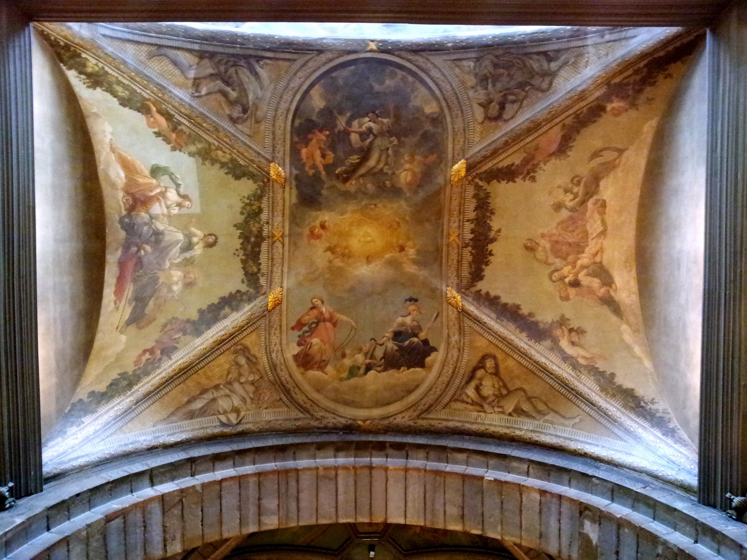 Painted ceiling of the hall (Plein) of the town hall of Maastricht, the Netherlands. The ceiling was painted by the 17th-century painter Theodoor van der Schuer.